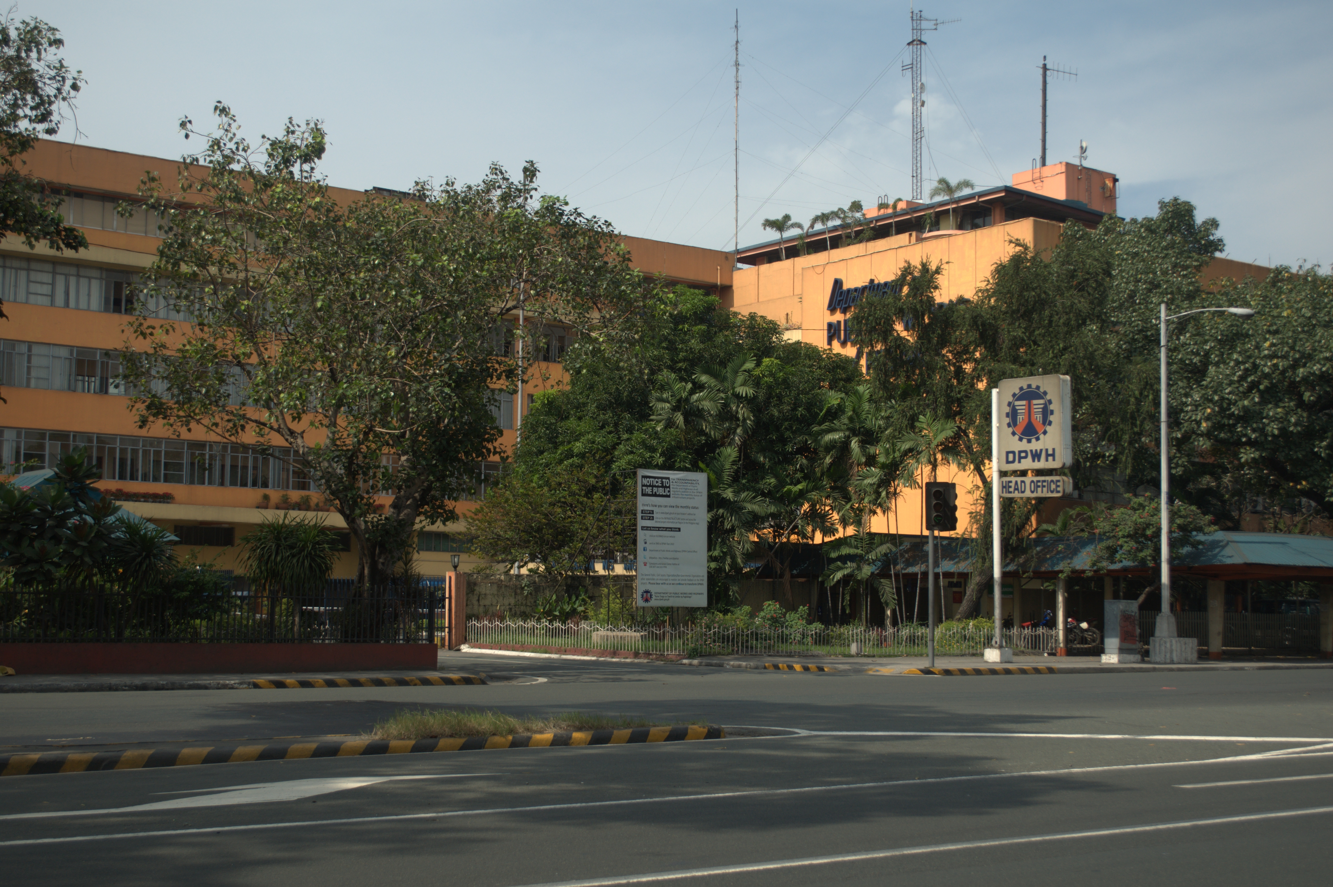 Department of Public Works and Highways in Manila, Philippines